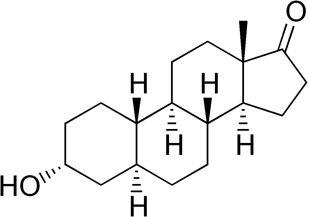 chemical structure of 5alpha-19-norandrosterone